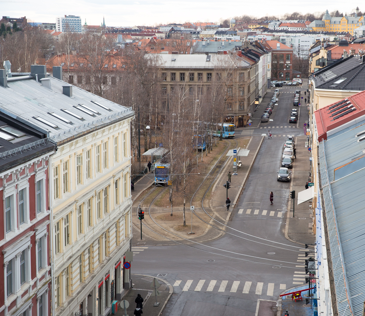 Schleppegrells gate, looking west from the block between Toftes gate and Falsens gate.